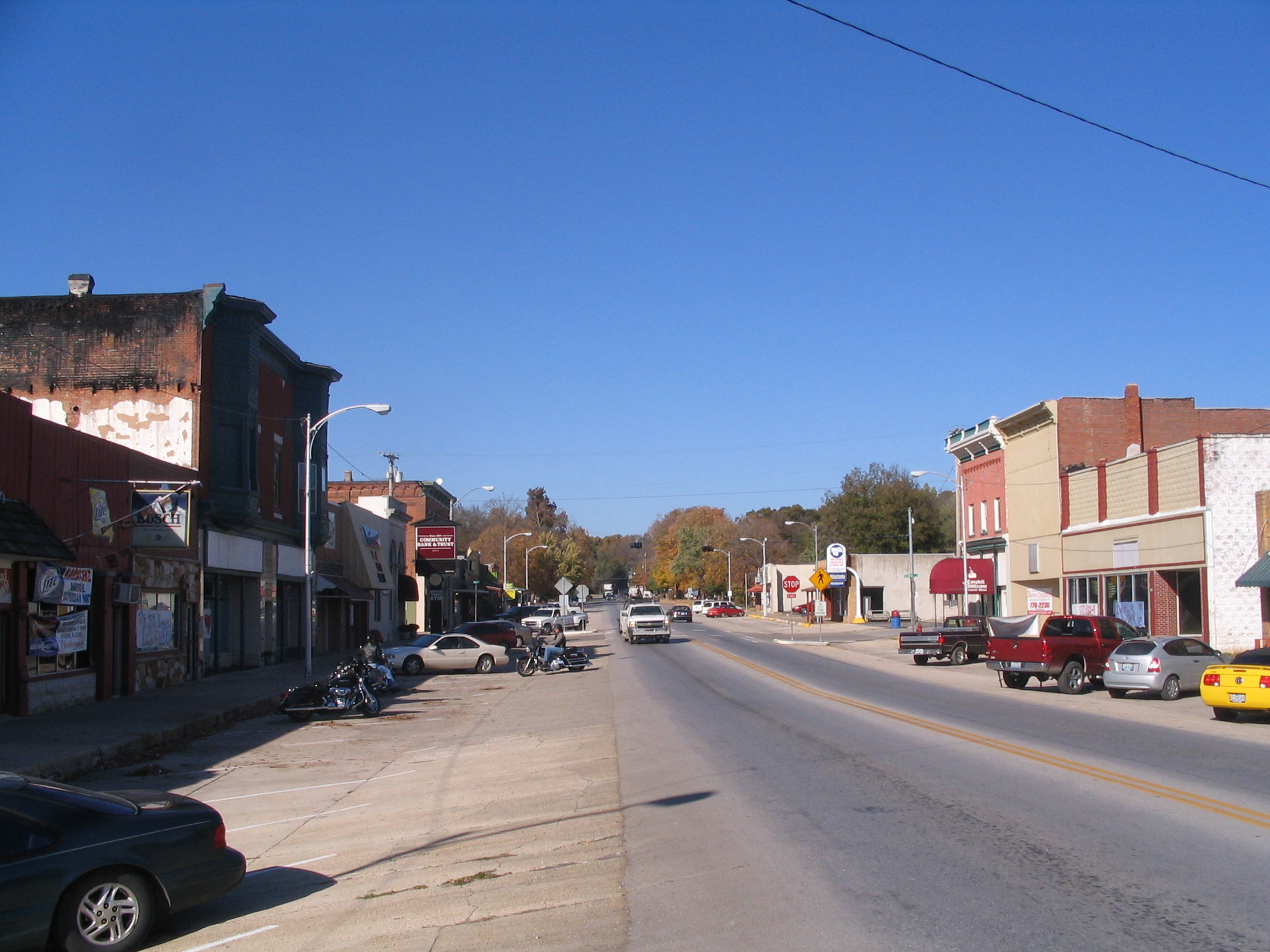 Cherokee Street (MO 43) in downtown Seneca, MO